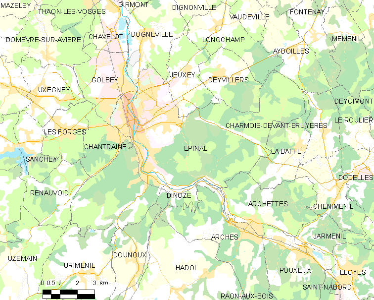 Map of French municipality Épinal